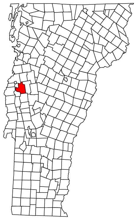 Description: Map of Vermont towns with New Haven highlighted Source: Map created by Jared C. Benedict on 26 March 2004. Copyright: © Jared C. Benedict.